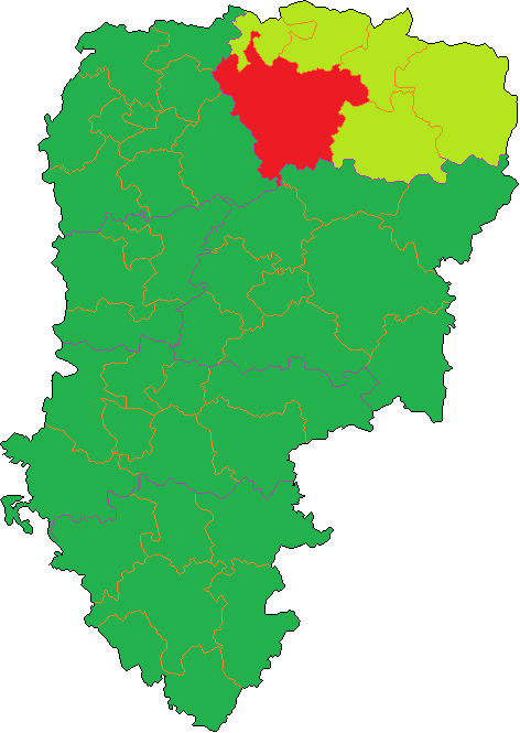 Map of Roman catholic diocese of Soissons